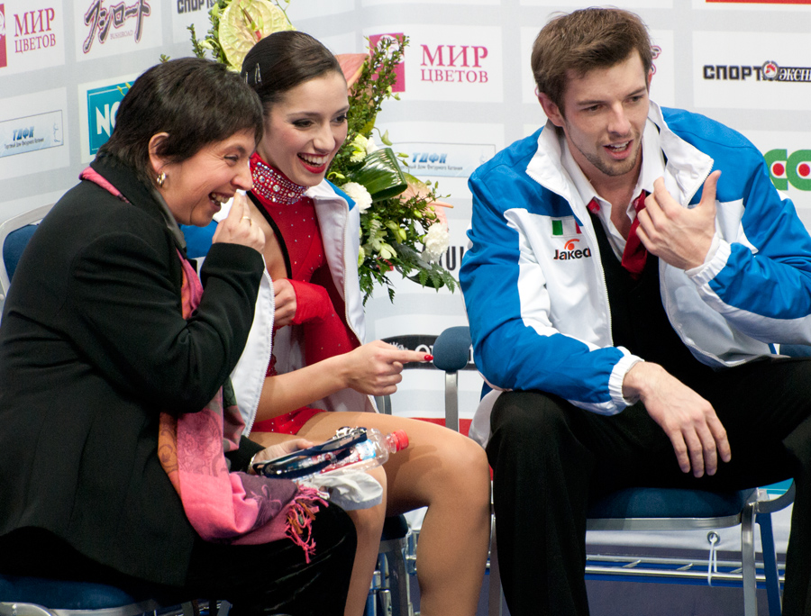 Stefania Berton and Ondřej Hotárek with their coach Franca Bianconi at the 2011 Cup of Russia (after short program).